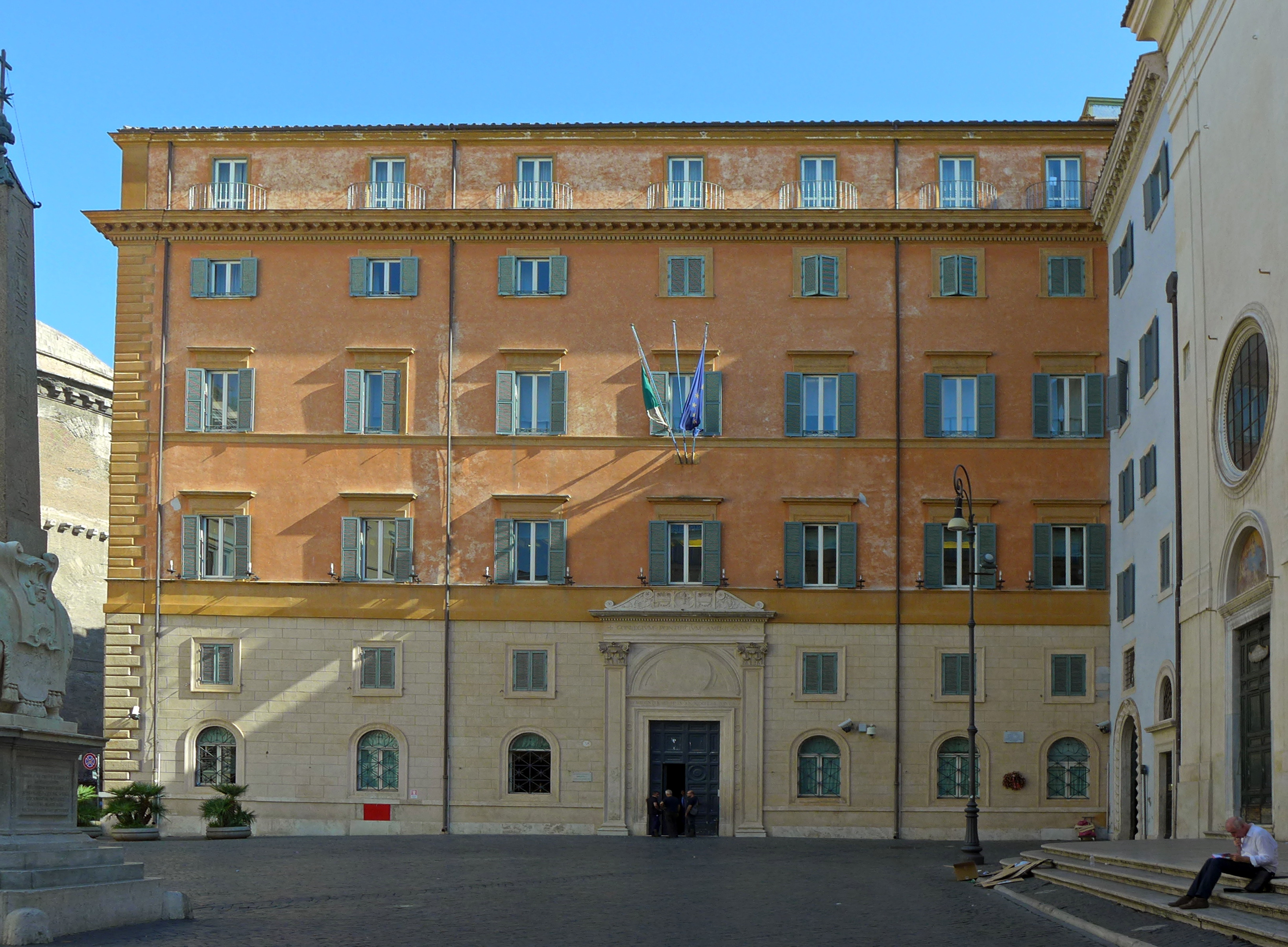 Piazza della Minerva (Rome), Biblioteca del Senato